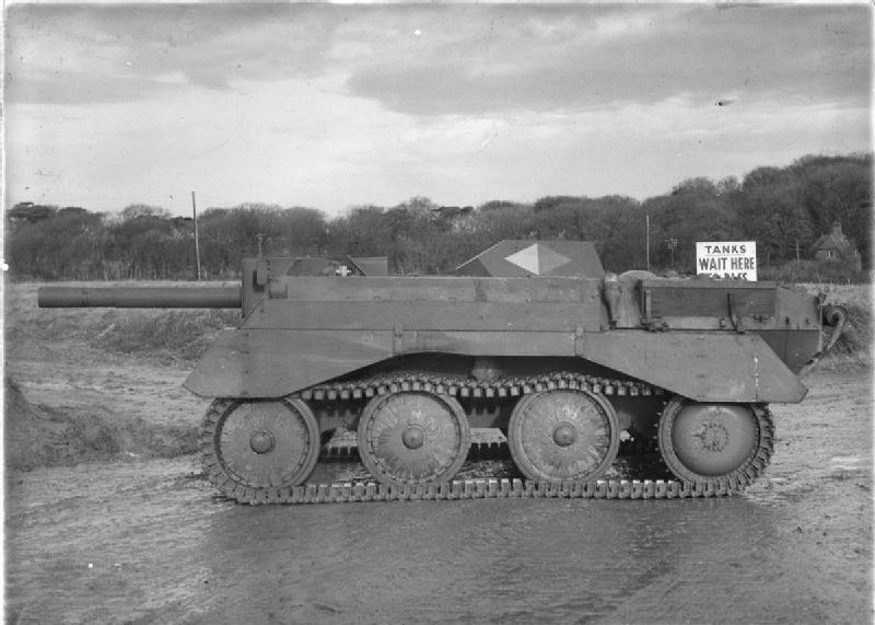 Tanks and Afvs of the British Army 1939-45 Alecto SP